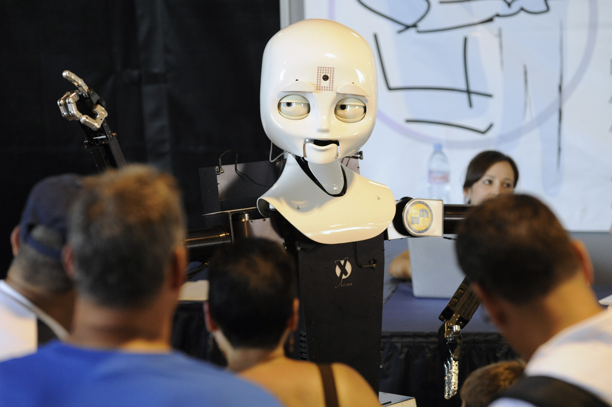 NEW YORK (May 31, 2010) Visitors interact with the mobile, dexterous, social (MDS) robot Octavia at the Office of Naval Research (ONR) exhibit during Fleet Week New York 2010. The ONR human robotics interaction research program at the Naval Research Laboratory focuses on the abilities of teams of humans and autonomous systems to communicate clearly, collaborate to solve problems, and interact via modality both locally and remotely. (U.S. Navy photo by John F. Williams/Released)